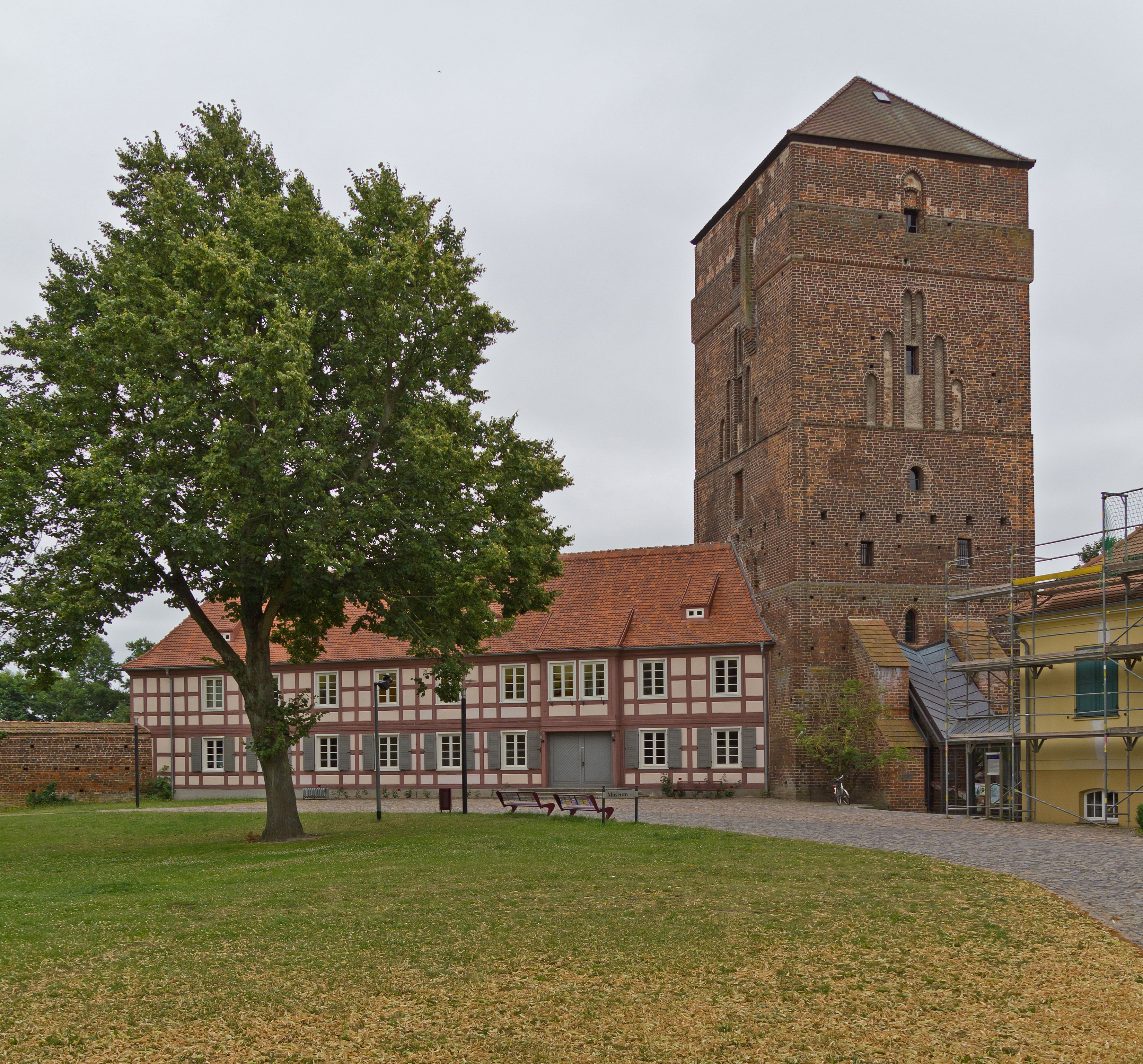 Wittstock/Dosse, Brandenburg, Germany